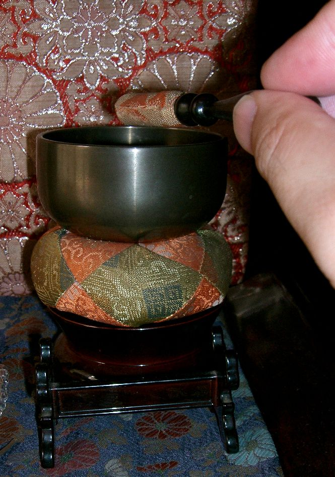 Singing bowl